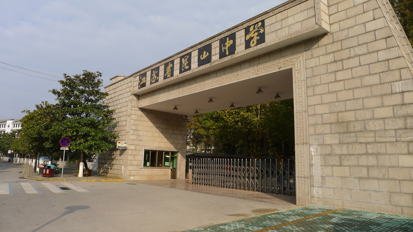 Jiangsu Provincial Kunshan High School